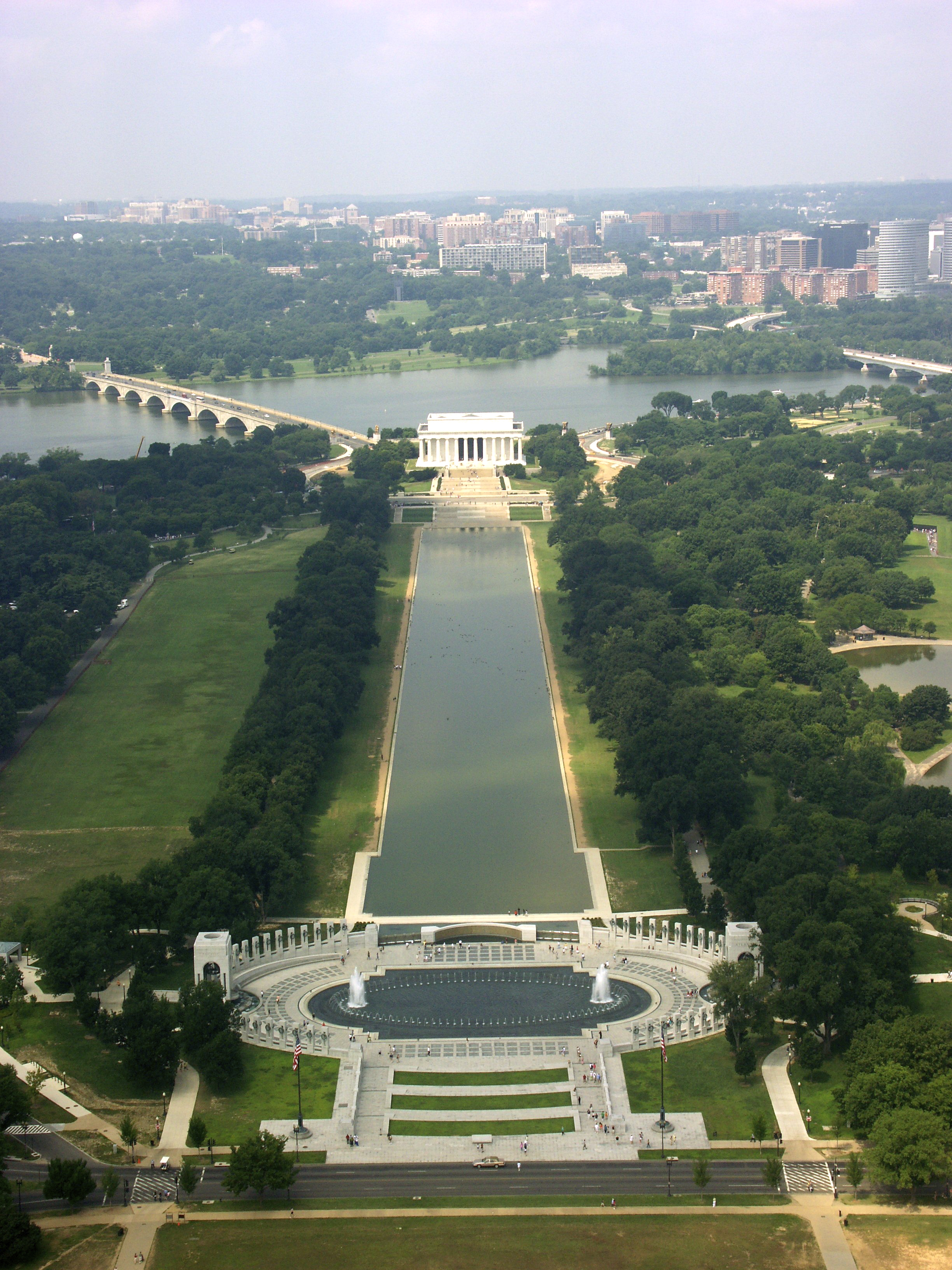 Lincorn Memorial from Tower.